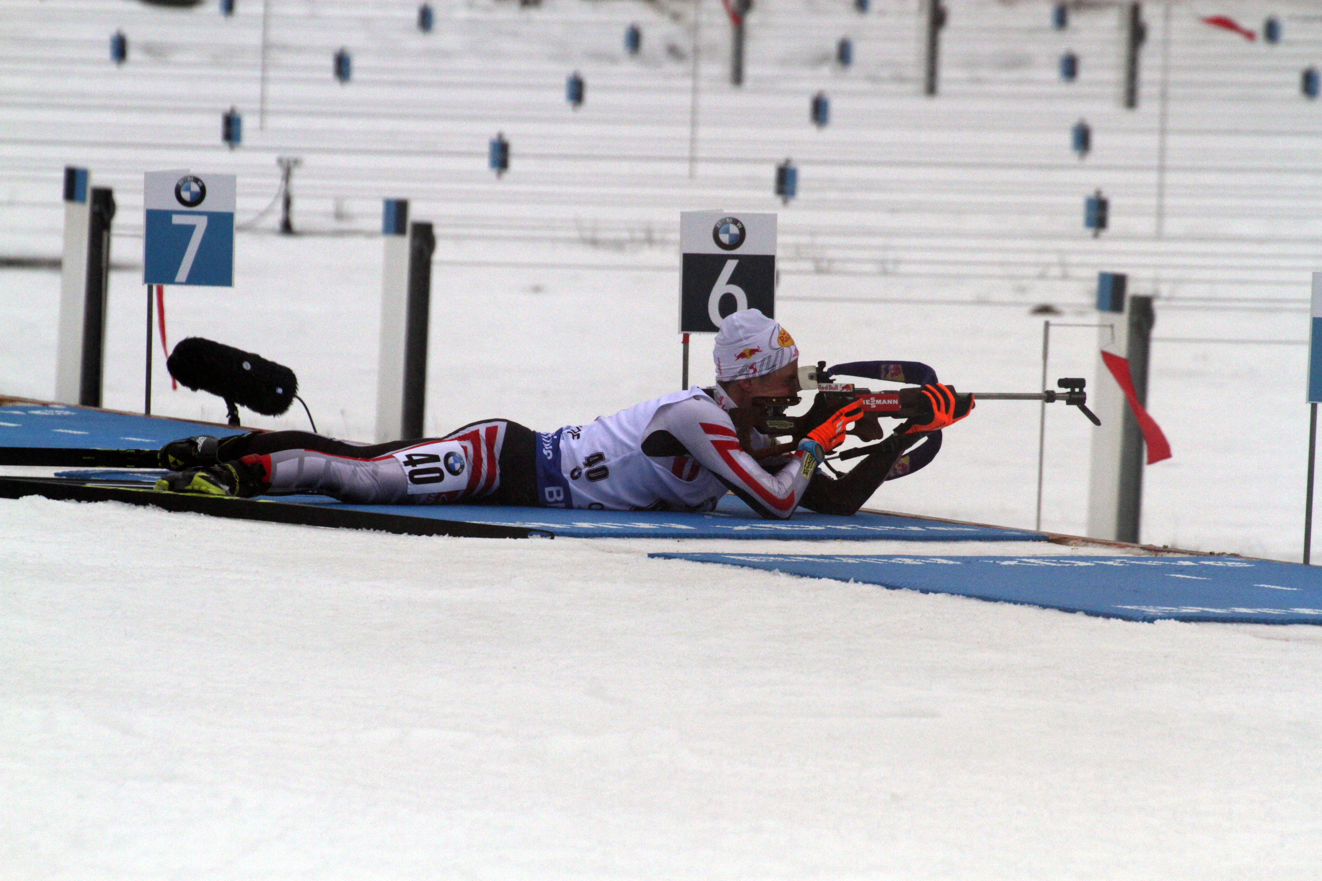 2018 Oberhof Biathlon World Cup - Sprint Men